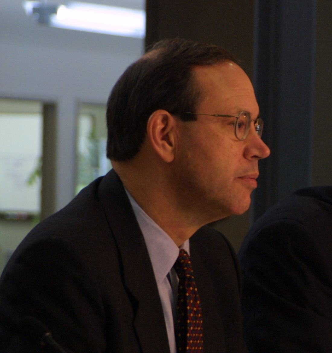 Bob Taft